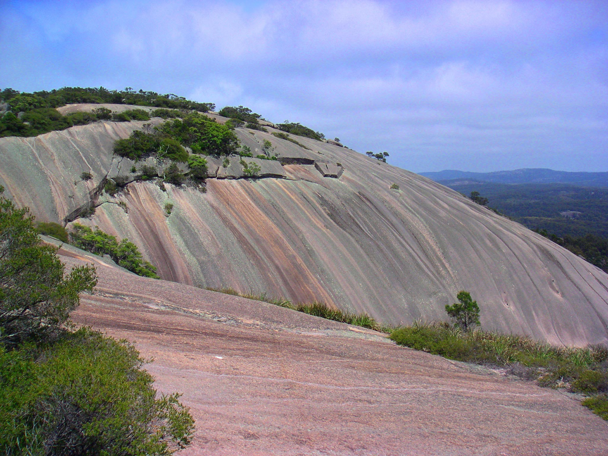 Bald Rock National Park NSW